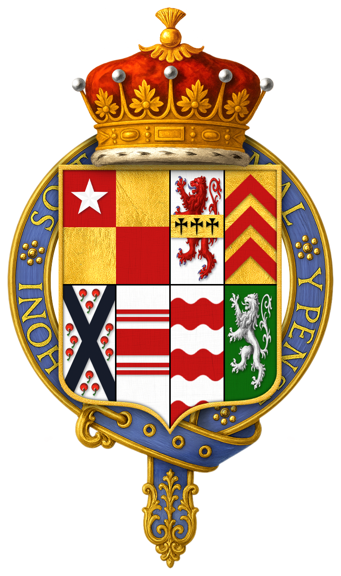 Coat of arms of Sir John de Vere, 15th Earl of Oxford, KG Oxford's stall plate remains installed within St. George's Chapel. The arms thereon are, quarterly of seven as follows: 1) quarterly, gules and or, on the first quarter a mullet argent (de Vere) 2) argent, a lion rampant gules, debruised by a fess or charged with three crosses pattée fitchée (Kilrington) 3) or, three chevrons gules (de Clare) 4) argent, a saltire sable between twelve cherries proper (Sergeaux) 5) argent, a fess between two bars gemels gules (Badlesmere) 6) barry nebulée, argent and gules (Folliot) 7) vert, a lion rampant argent, vulned on the shoulder proper (Bolebec)